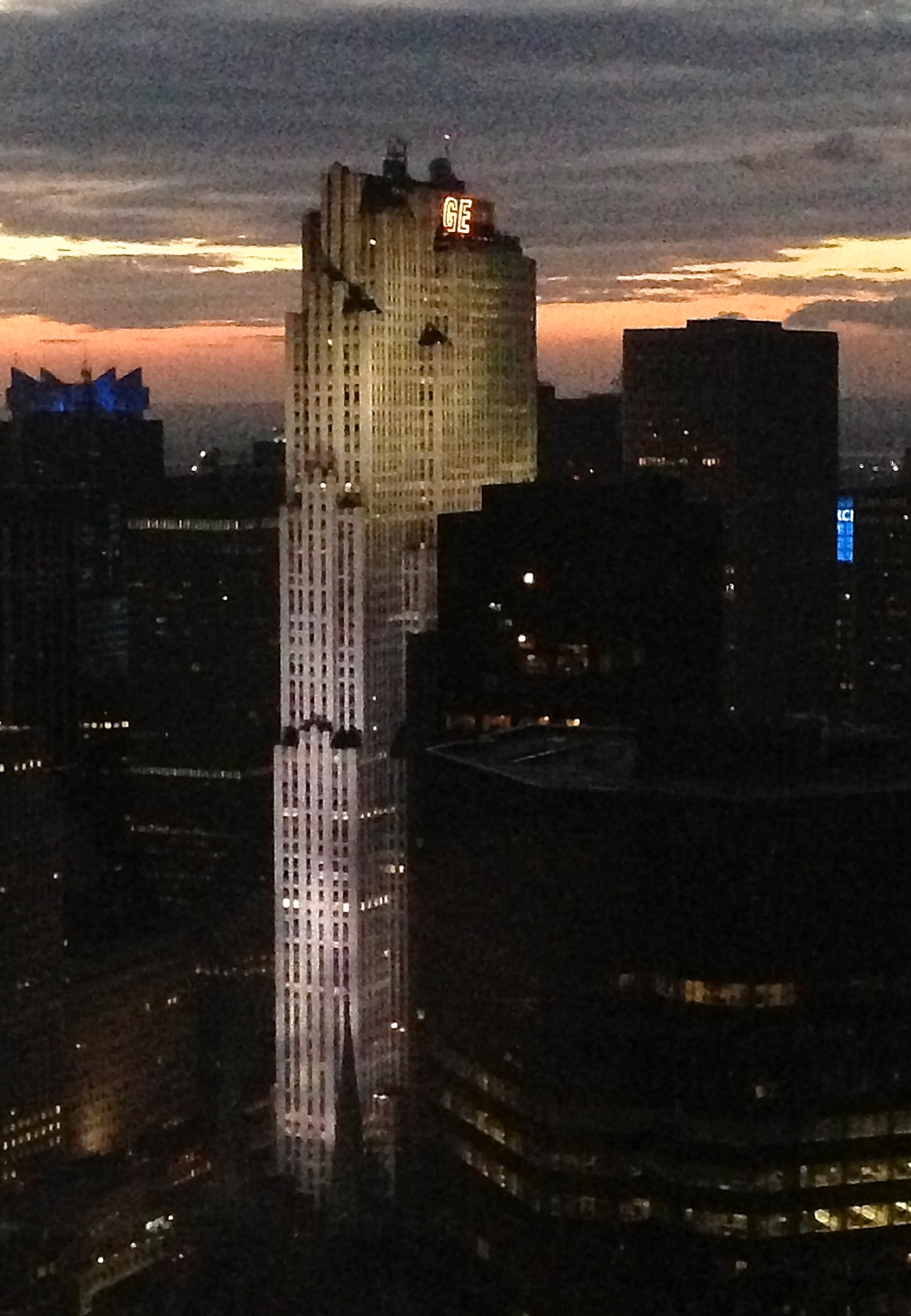 This photograph was taken from the Citigroup Building on 53rd Street and Lexington Avenue.